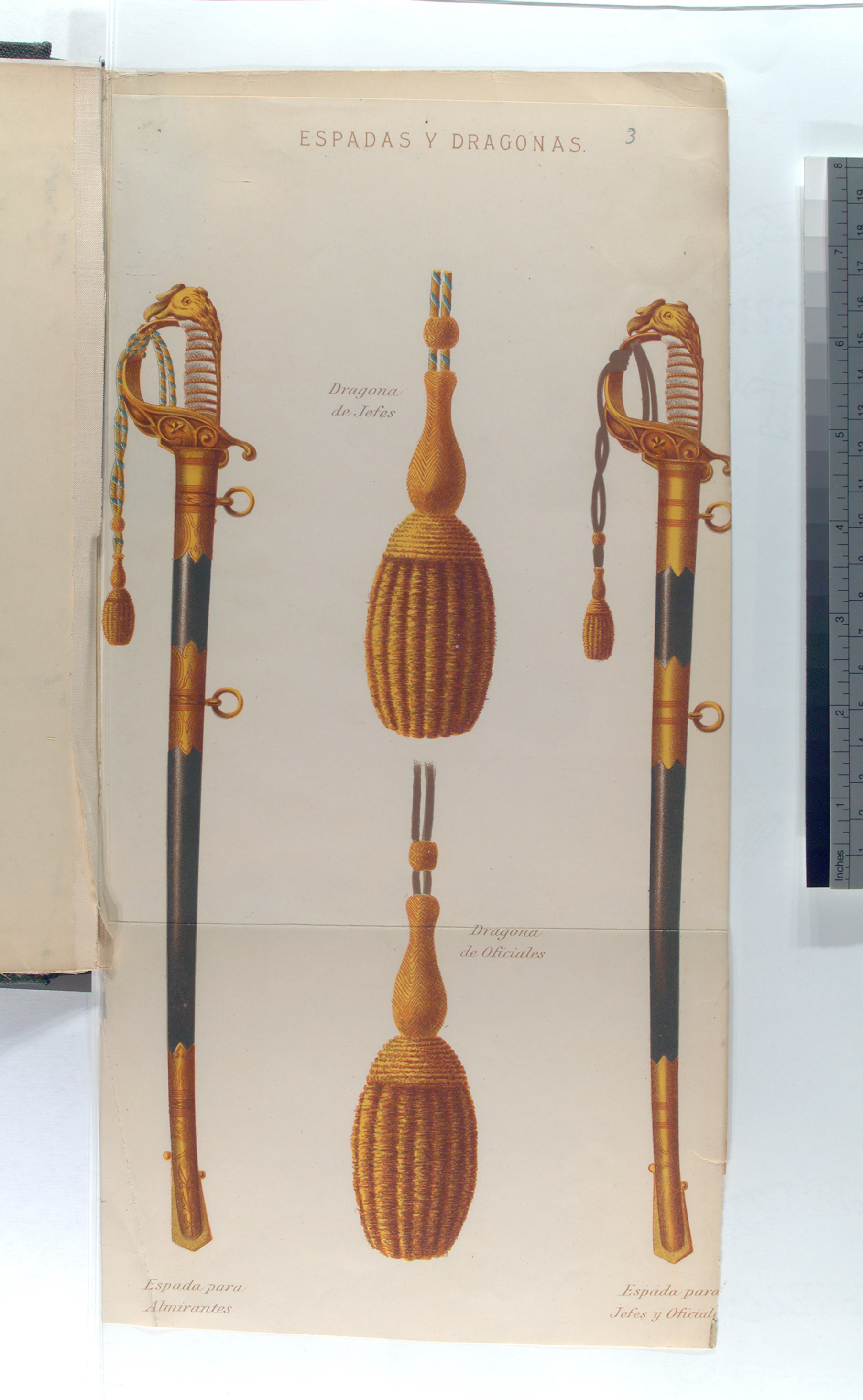 Ownership : Draper Fund (571411) Additional note from unknown source : Navy - swords and sword knots for flag officers (left and top) and for other naval officers c. 1898